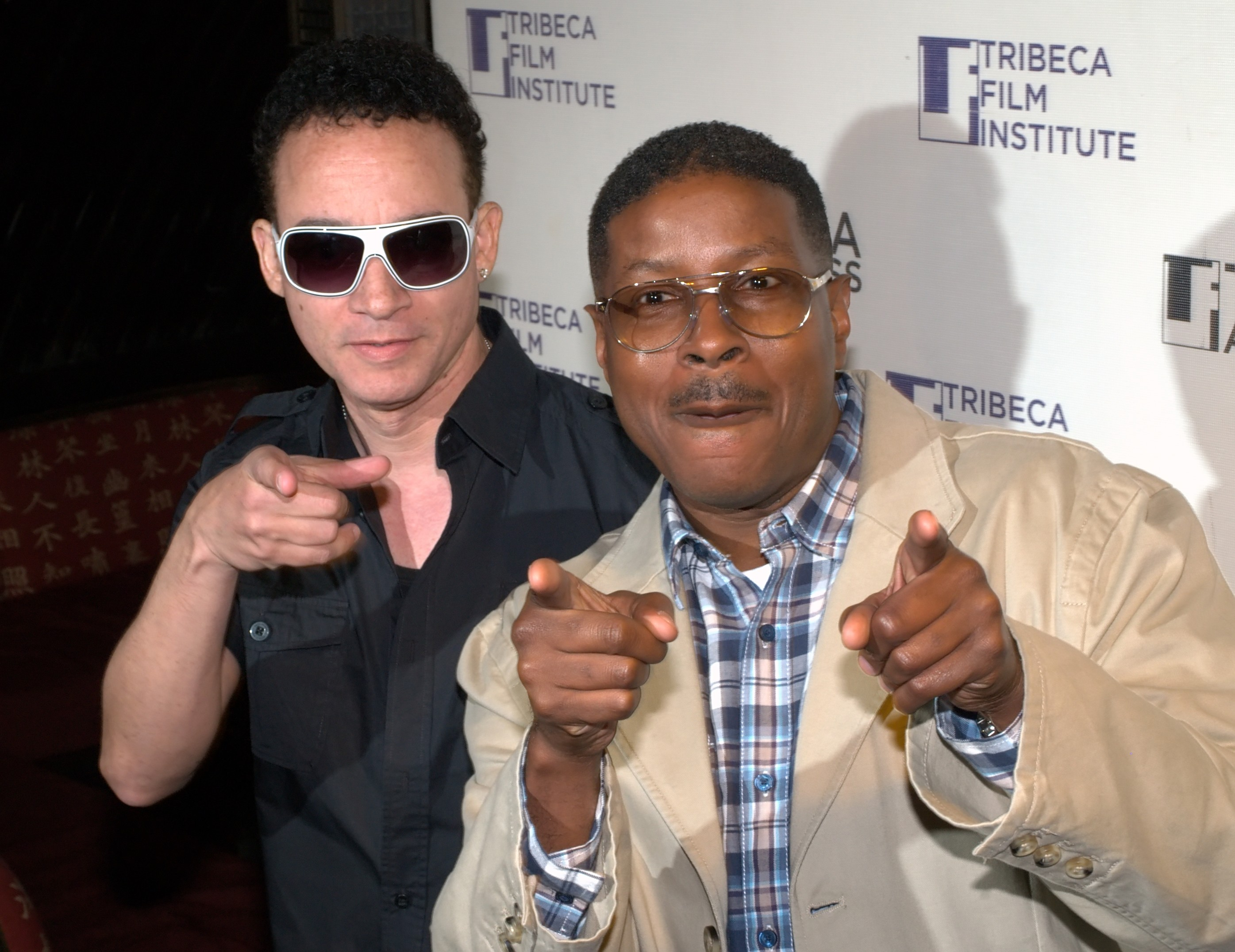 Christopher "Kid" Reid and Christopher "Play" Martin at the 2010 Tribeca Film Festival.